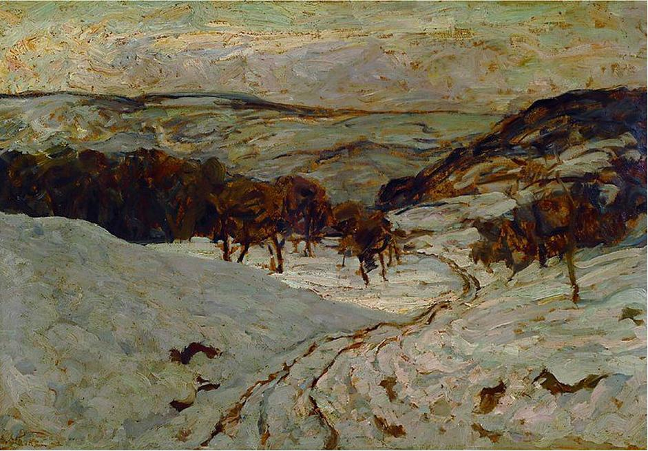 Oil on cardboard. 46 x67 cm.